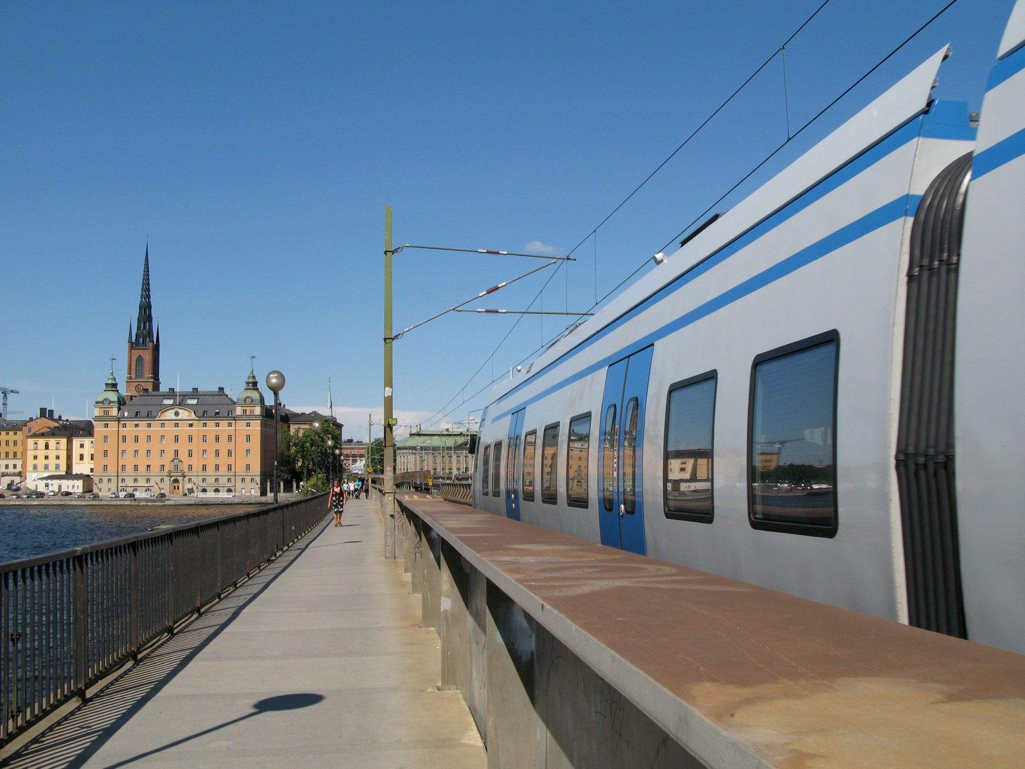 Stockholm commuter train of class X60, South Railway Bridge